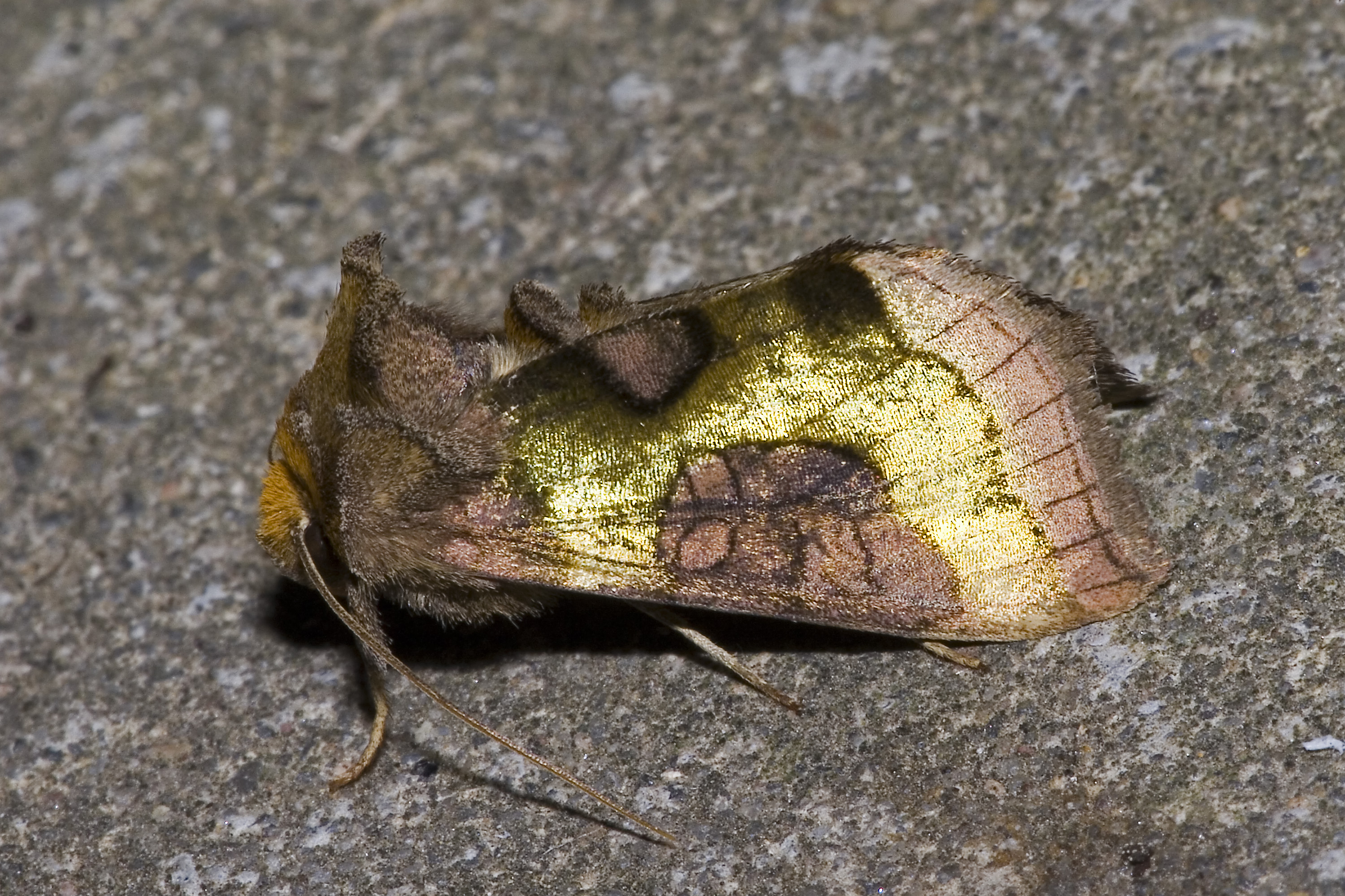 Tutts Burnished Brass Mora